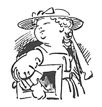 drawing by Wilhelm Busch